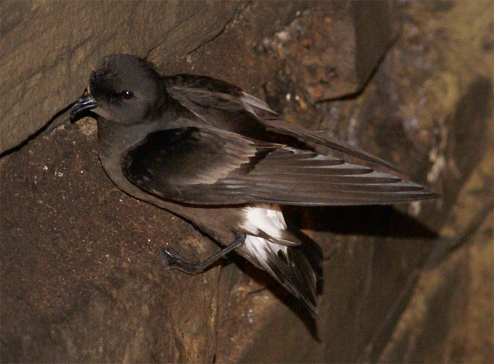 European Storm-petrel; picture taken in Mousa Broch (Mousa, Shetland, Scotland)